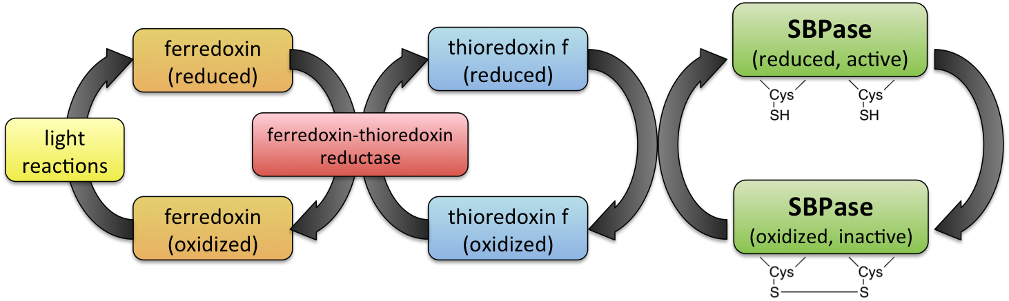 Light activation of sedoheptulose-bisphosphatase by ferredoxin-thioredoxin system